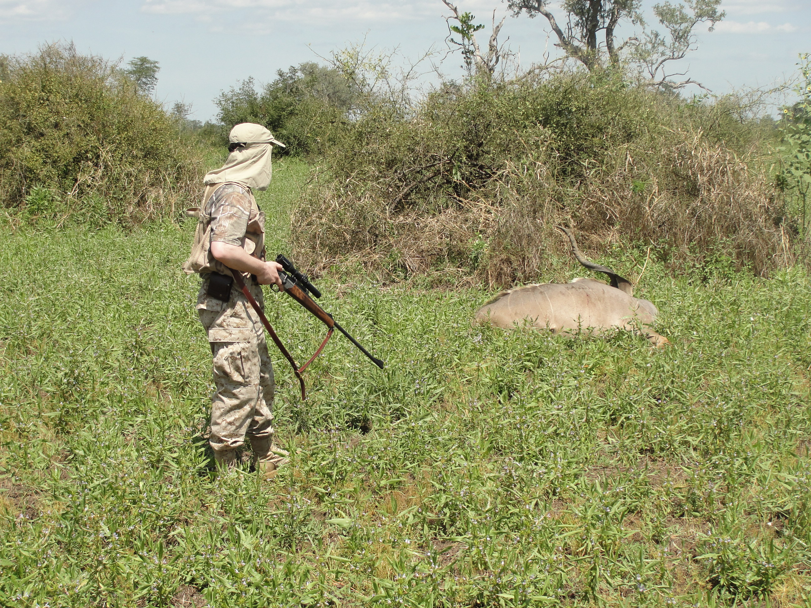 Approaching a Killed Greater Kudu, Zambia, South Luangwa Game Reserve